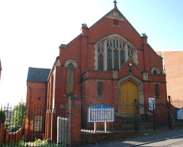 Trinity Methodist Chapel, Netherton This chapel is located on Church Road.